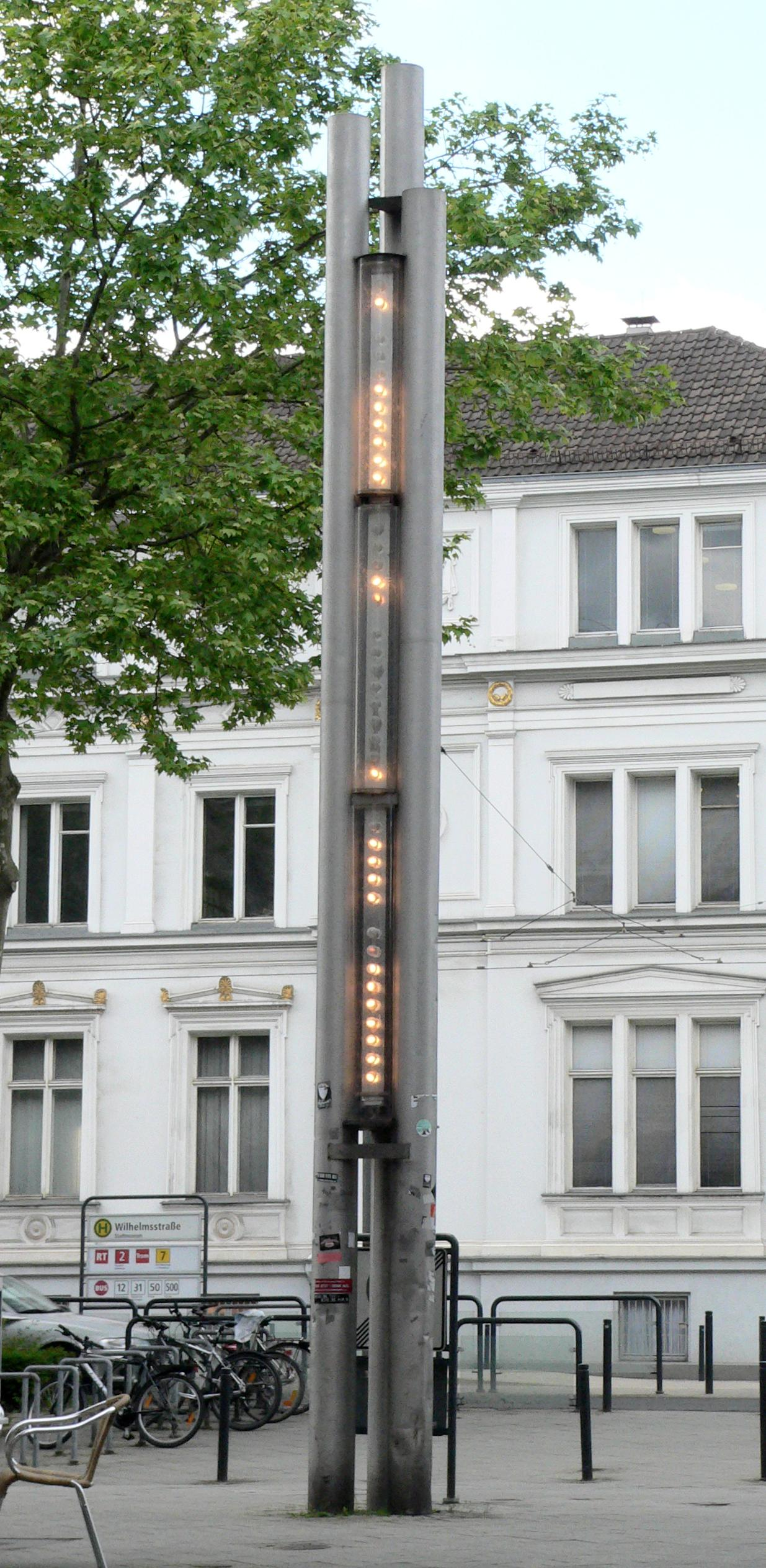 Linear-Uhr from 1977 in Kassel, Germany. The time is displayed as the lamps light up in a specified sequence. The lights display the time of 16:21:47 (4:21:47 p.m.)